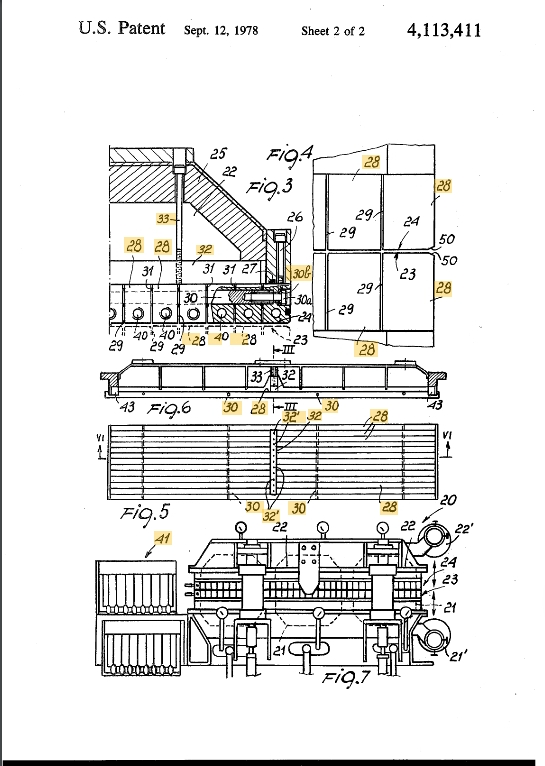 Brevetto del processo cartonplast inventato da Maro Terragni nel 1974